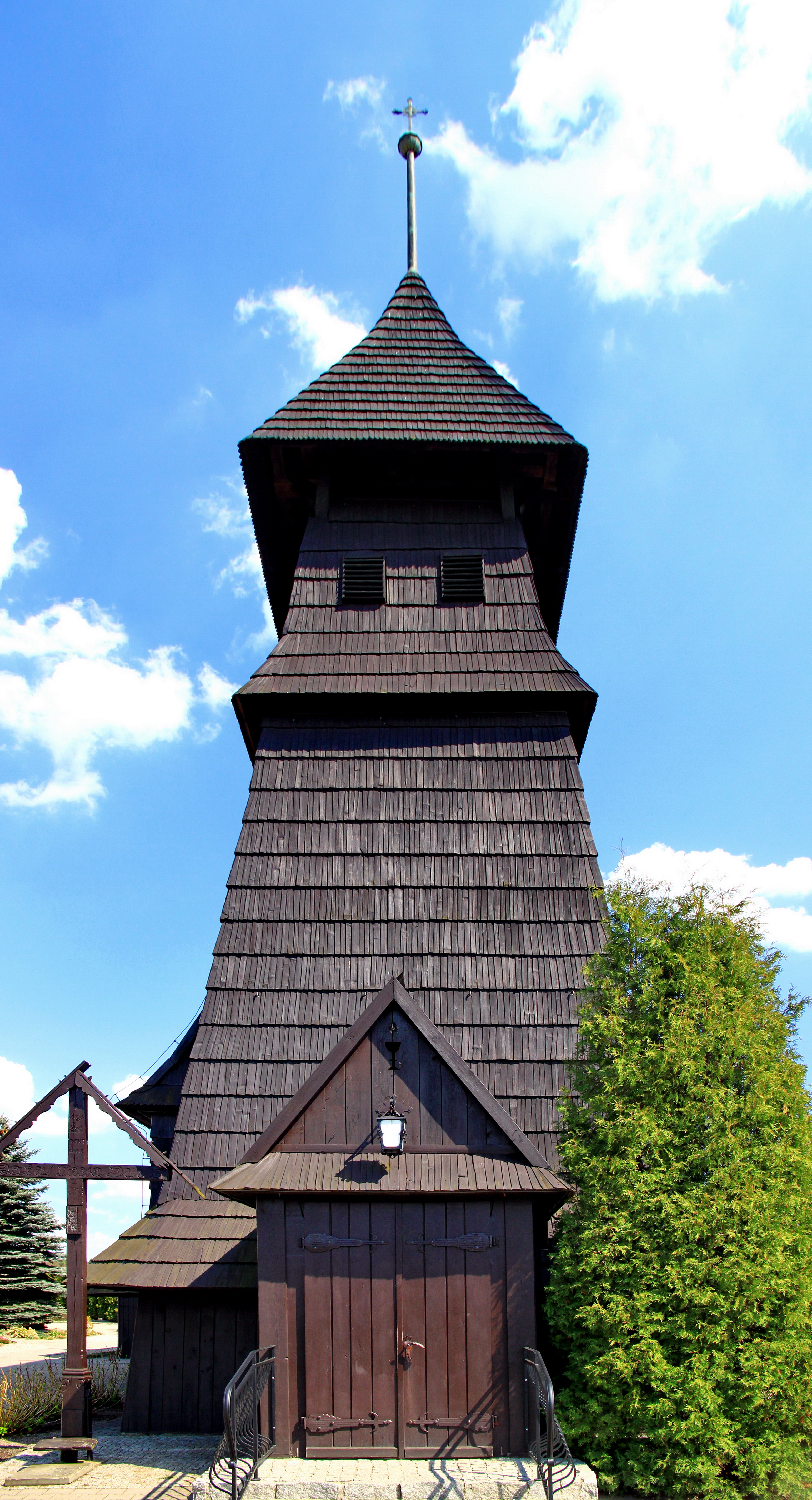 Palowice, Holy Trinity parish church, build in 1606, 1981